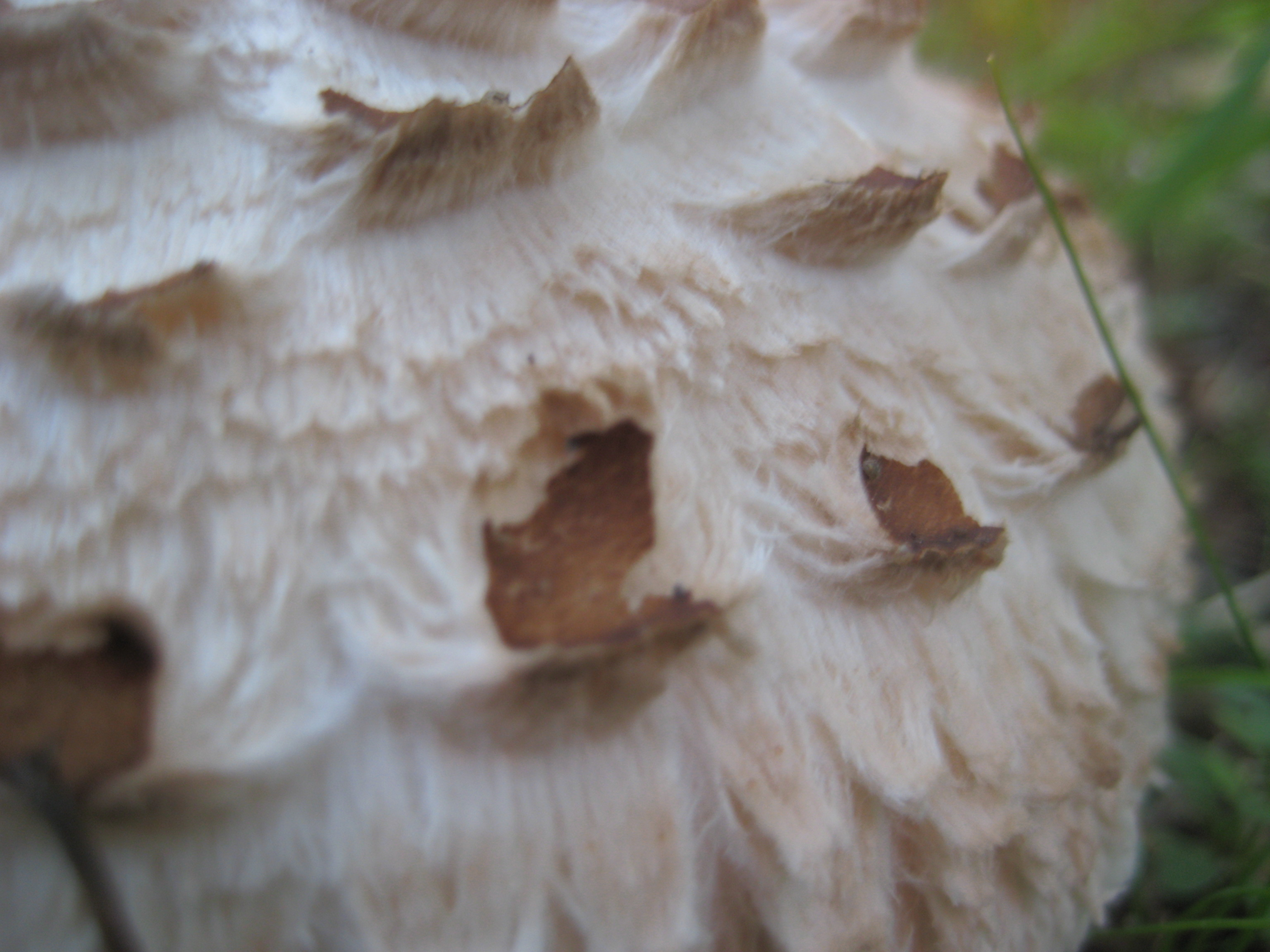 macrolepiota excoriata